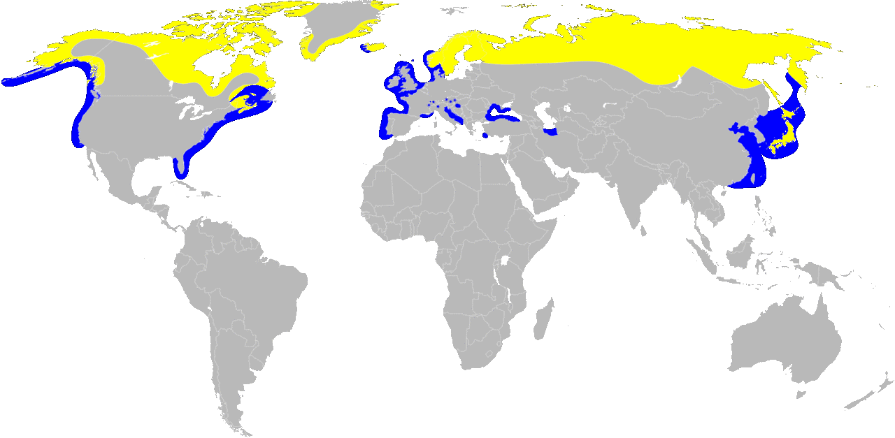 Description (English) Breeding range of Red-throated Diver, Gavia stellata Source Self-made Author Jimfbleak (talk) Date 29 July 2009 Base map BlankMap-World-large-noborders..png Mapping based on Arlott, Norman (2009). Birds of the Palearctic: Non-passerines. London: Collins. ISBN 9780007155651 p.208 Harrison, Peter (1983) Seabirds: an identification guide Croom Helm ISBN 0-7470-1410-8 Sibley, David (2000) The North American Bird Guide Pica Press ISBN 1-873403-78-4 Invalid ISBN